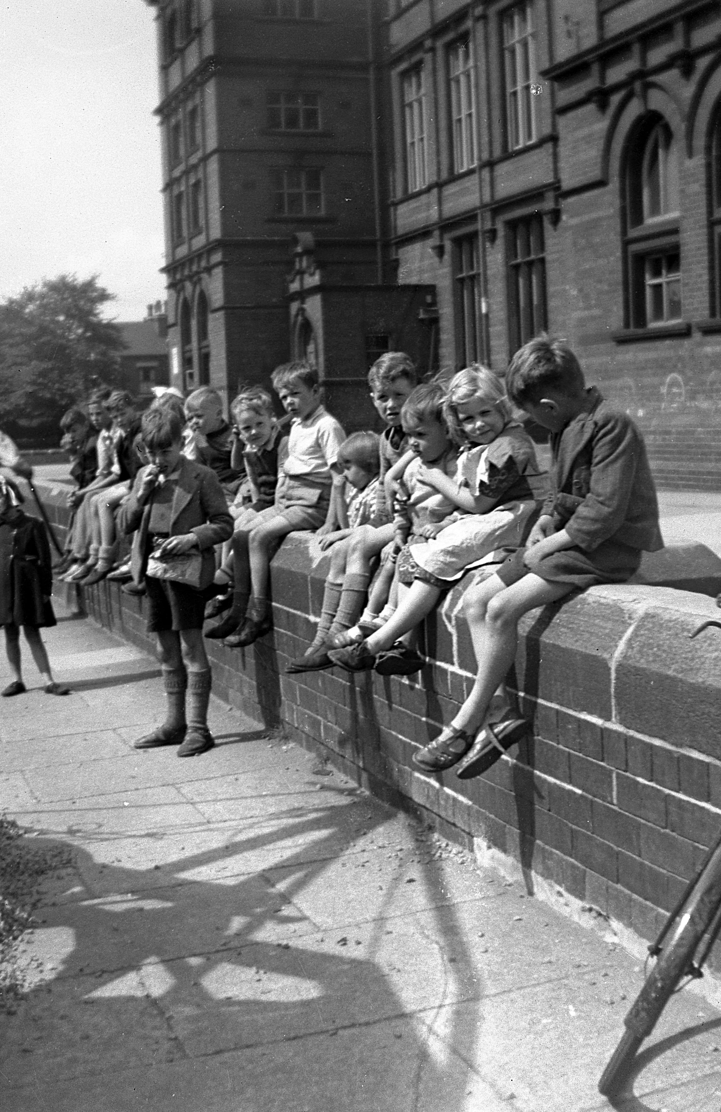 Children sitting on the wall in front of Brudenell Council School (demolished ca 1990).